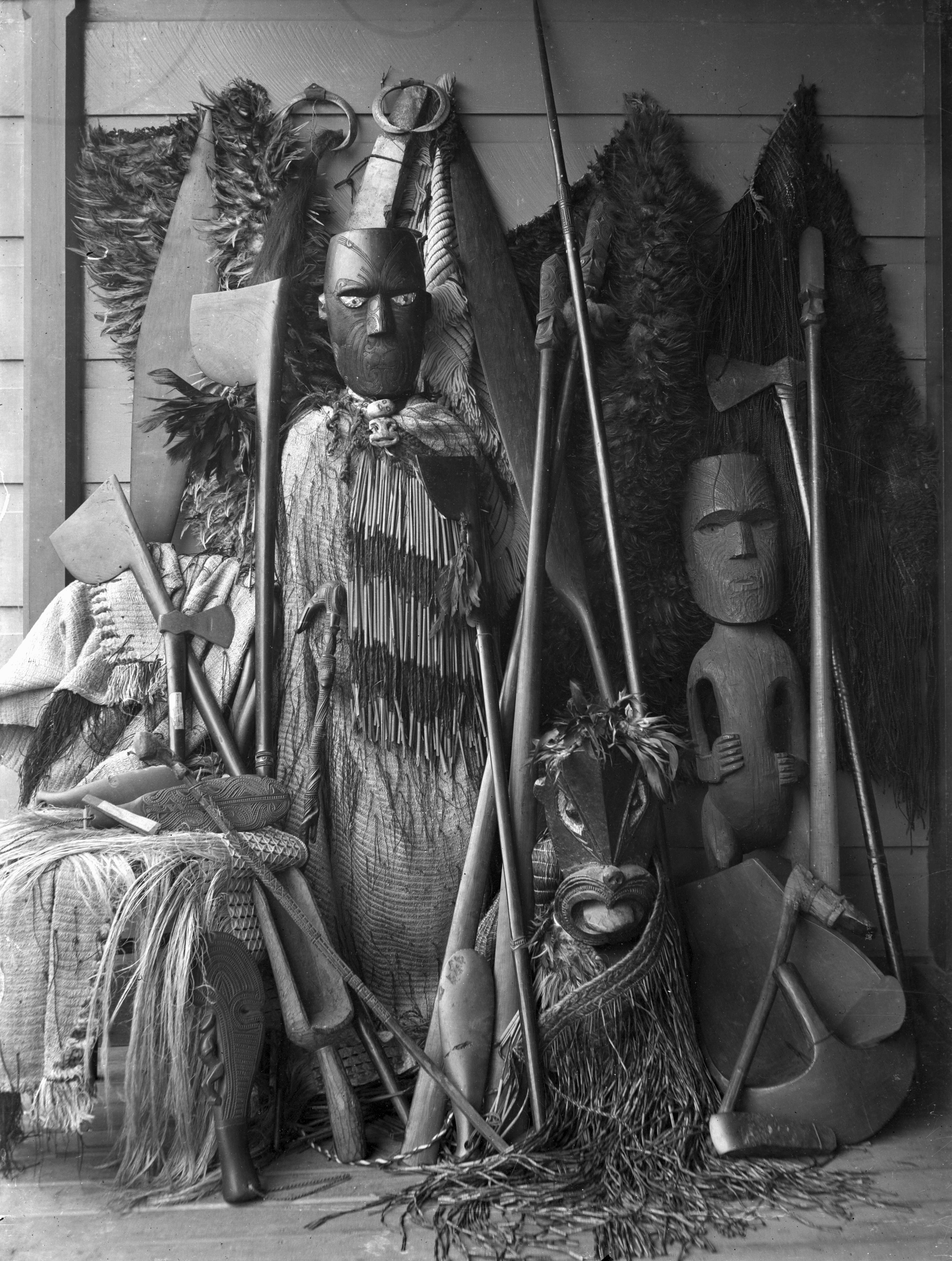 Traditional Maori wood carving. The figure, with paua shell eyes, wears a piupiu (flax garment worn around the waist), and a tiki, and is alongside a display of weapons, implements and cloaks. Photograph taken by Albert Percy Godber circa 1900. For other photographs with the same figure included, see APG-0095-1/2-G, and APG-0094-1/2-G and APG-0097-1/2-G.